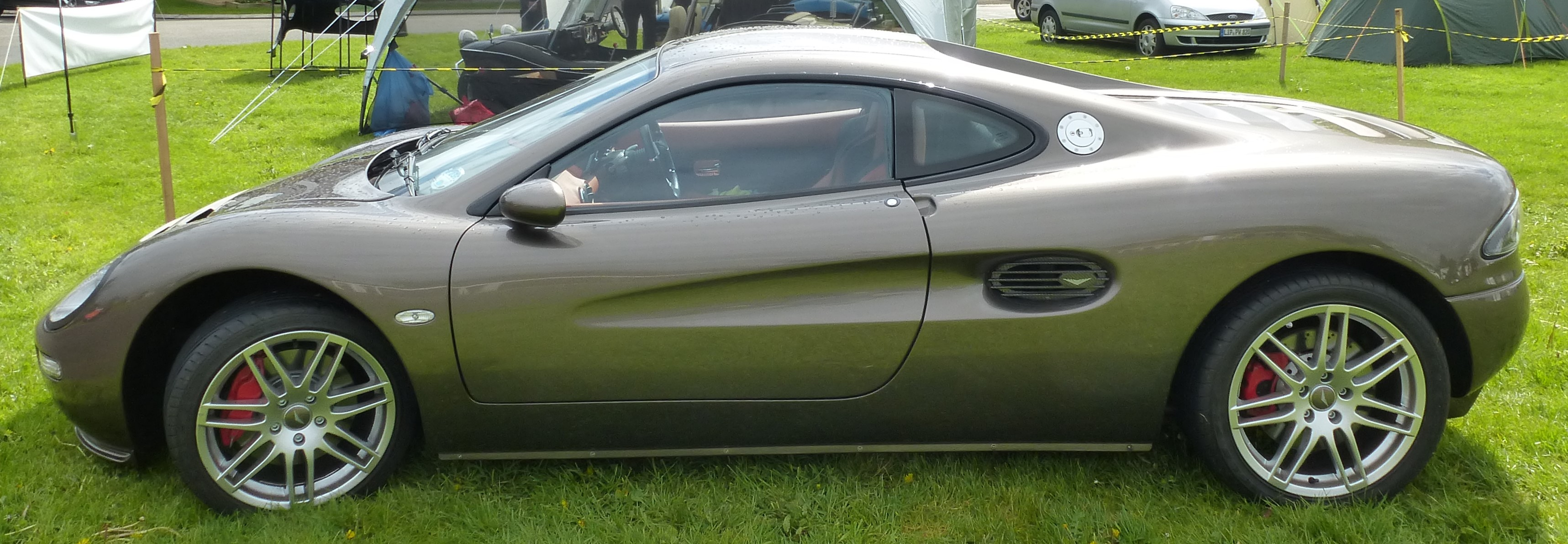 Phantom GTR